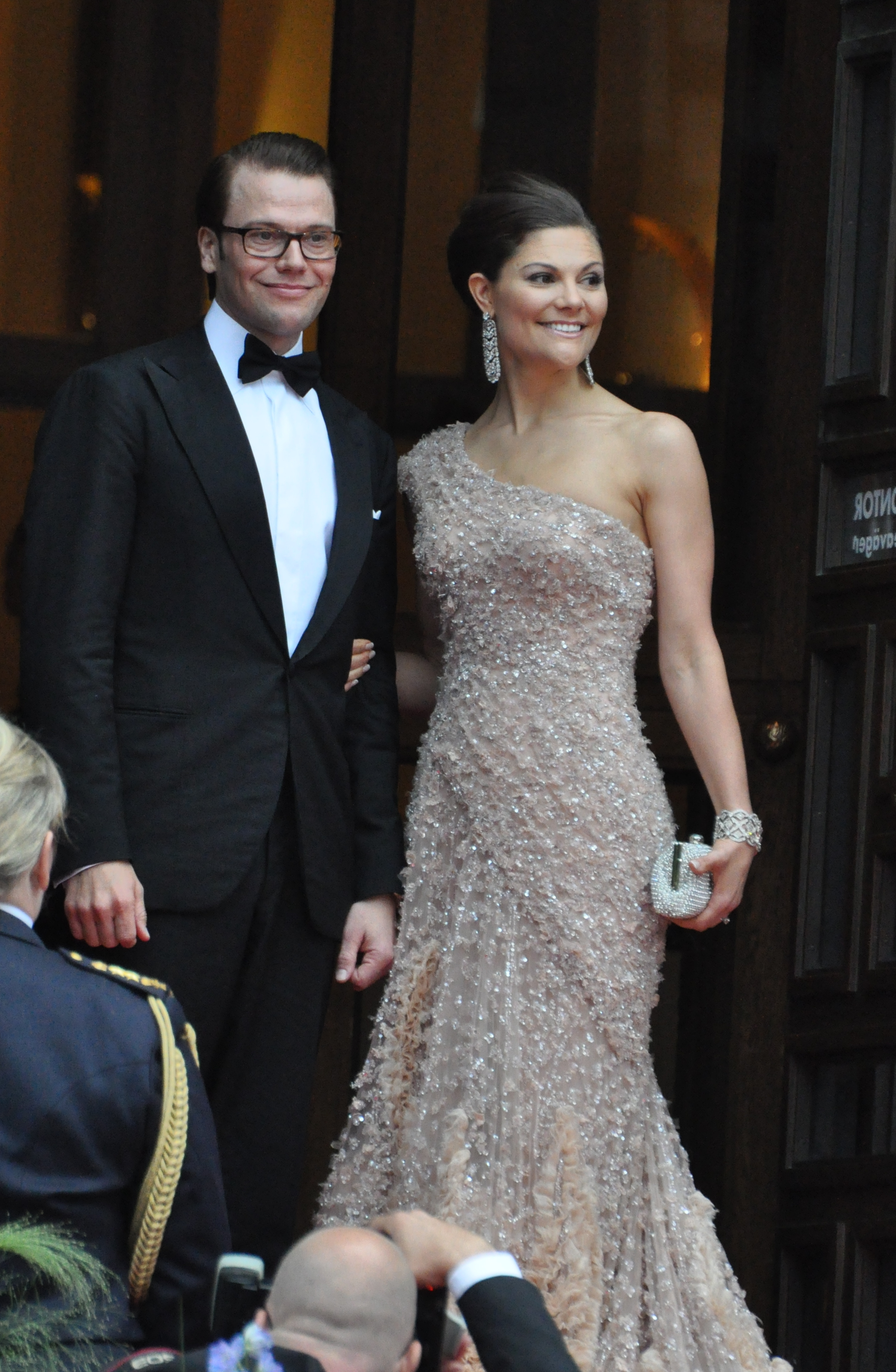 Wedding of Victoria, Crown Princess of Sweden, and Daniel Westling; Arrival to the Riksdag's Gala Performance at Konserthuset: HRH Victoria and Daniel